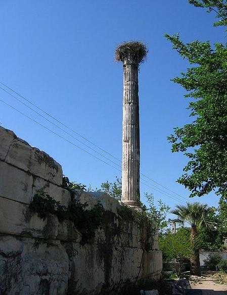 Ancient column with stork nest on the top in Milas, Turkey